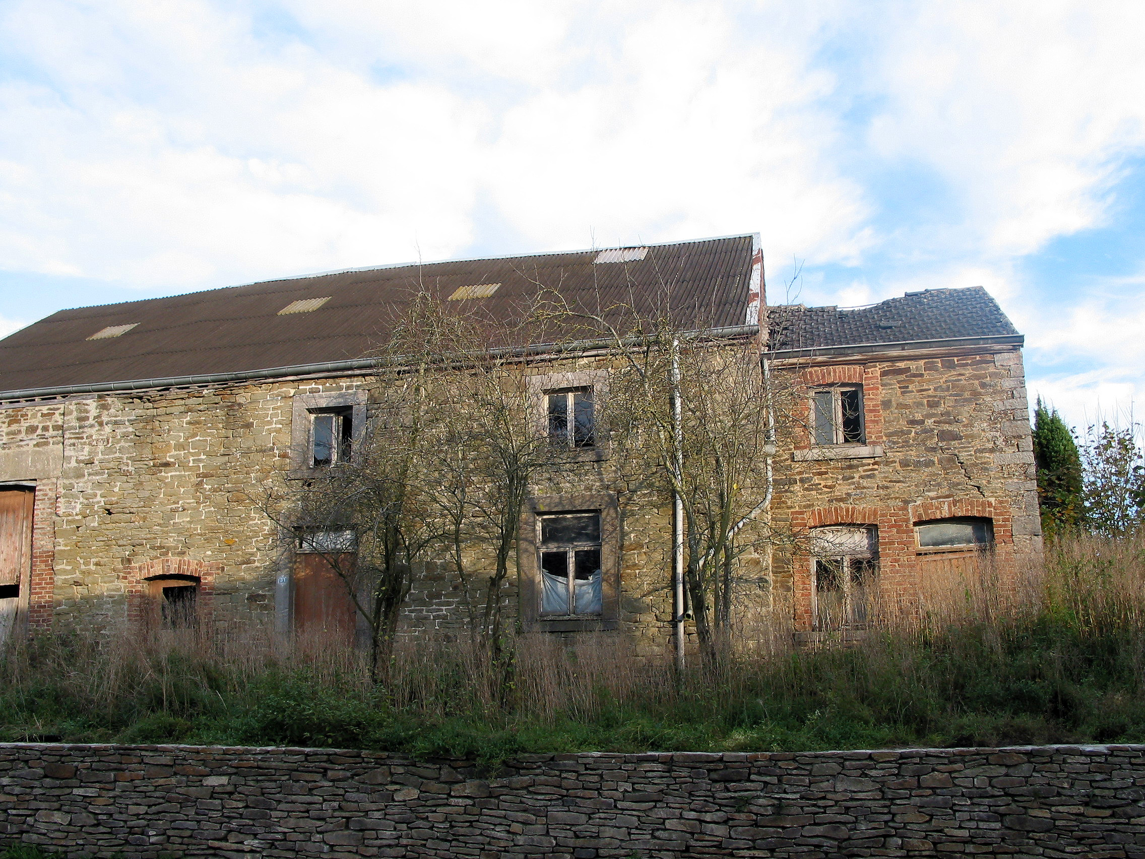 Lesterny (Belgium), house in ruin located rue du Point d'Arrêt (XIXth century).